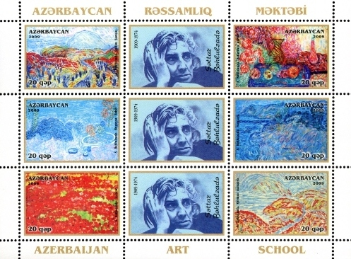 Stamps with paintings of Sattar Bahlulzade